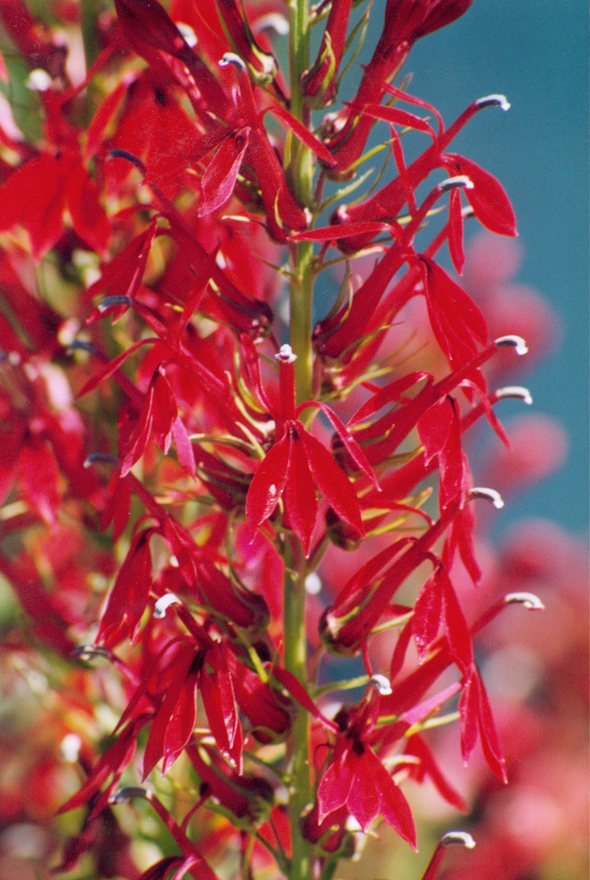 Cardinalflower (Lobelia cardinalis, Campanulaceae) - Jardins de Metis, Quebec, Canada.